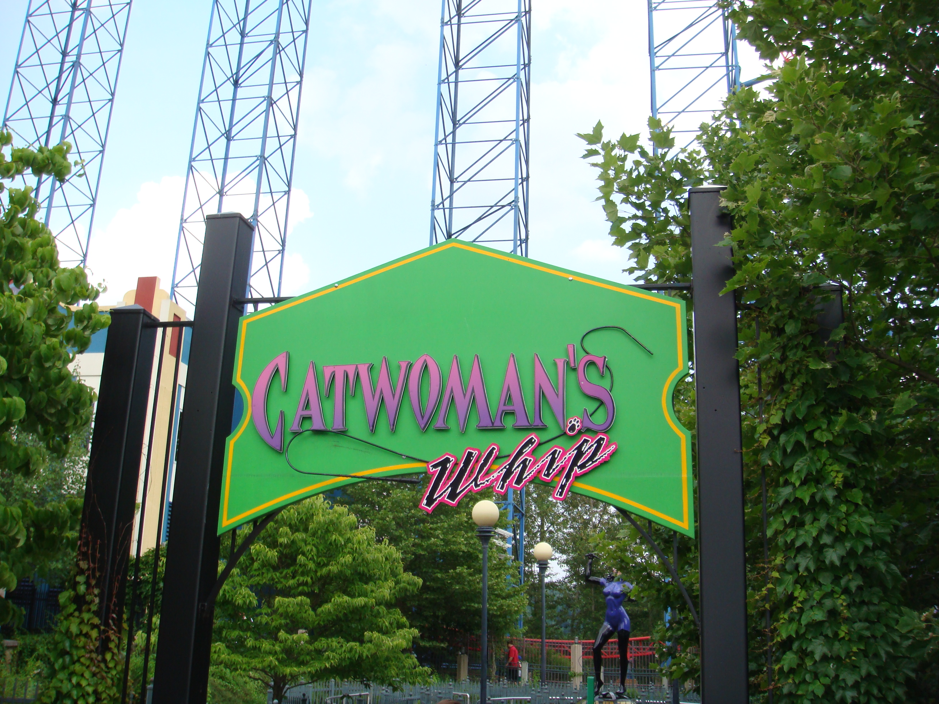 Entrance Catwoman's Whip